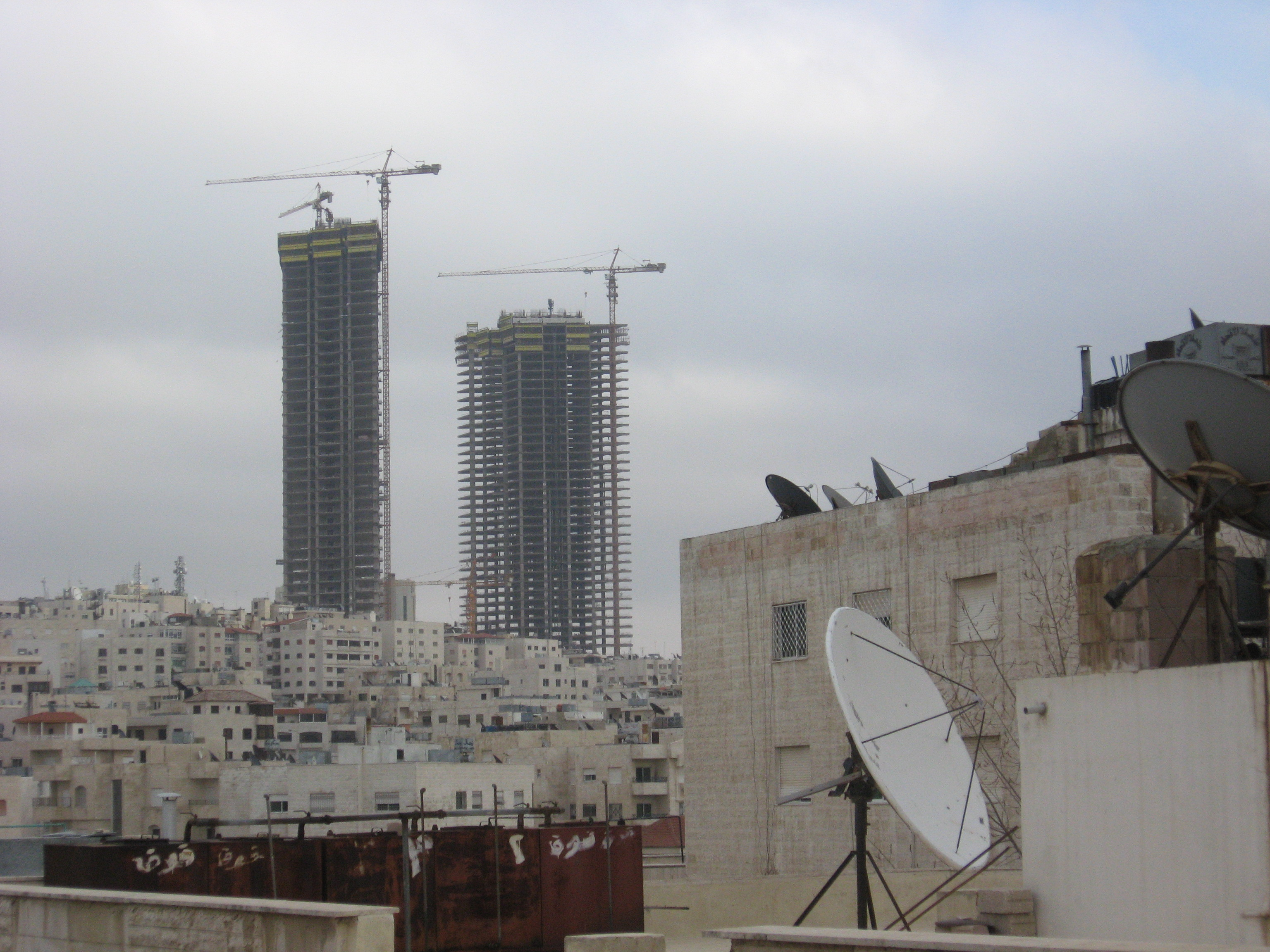 Jordan Gate Towers, Amman, Jordan